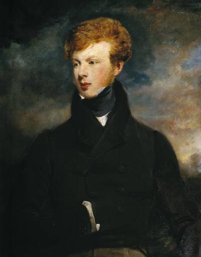 Sir Henry Webb, Baronet (born 27 April 1806 Lyons), Oil on canvas, 92 x 71 cm